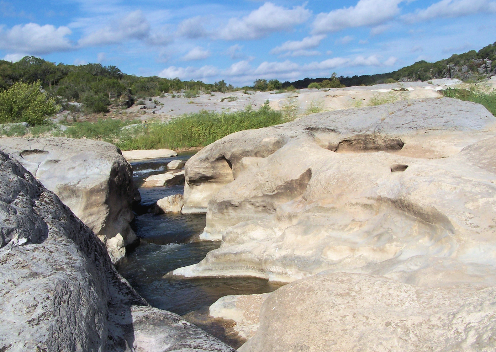 The Pedernales River running through limestone formations in Pedernales Falls State Park.